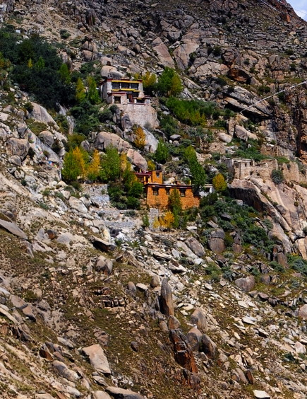 Rakhadrak Hermitage (Ra kha brag ri khrod) is located northeast of (and one ridge over from) Se ra. It takes about forty-five minutes to walk from Se ra to the hermitage (ri khrod). Ra kha brag is also just a ten-minute walk up the mountain from Keutsang Hermitage (Ke’u tshang ri khrod). Like Ke’u tshang, it is one of the hermitages on the “Sixth-Month Fourth-Day” (Drug pa tshe bzhi) pilgrimage circuit. The site is divided into two parts. In the lower portion, one finds a compound, which is the site of the caves of Tsong kha pa (1357-1419), Rgyal tshab rje (1364-1432) and Mkhas grub rje (1385-1438). It is also the site of a small hut that belonged to Byams chen chos rje (1354-1435), the founder of Se ra, where the latter is said to have begun the tradition of the the Ganden Feast of the 25th (Dga’ ldan lnga mchod) commemoration of the death-date of Tsong kha pa. East of this compound, there is a small kitchen and a large building that before 1959 appears to have served as monastic living quarters.